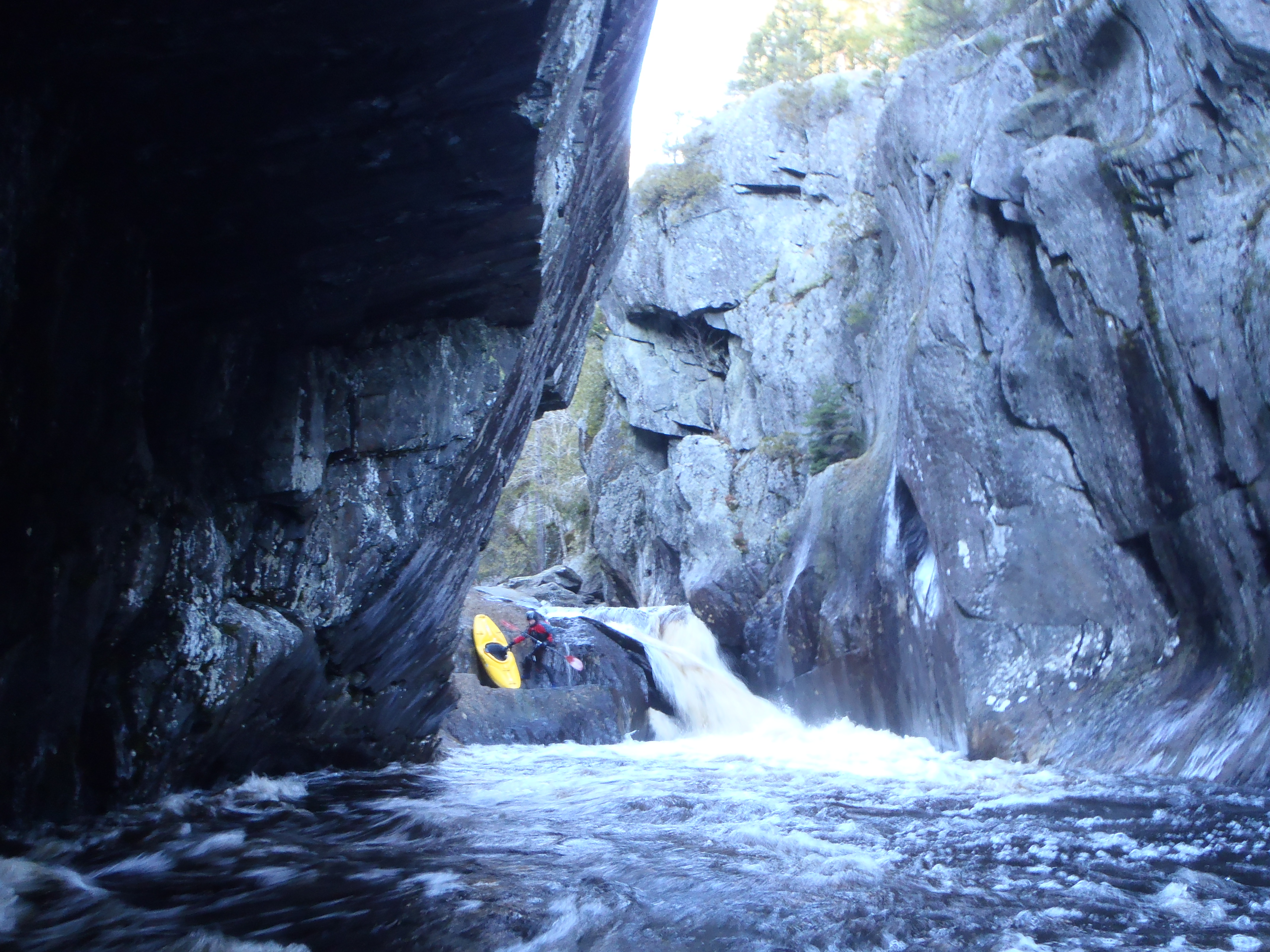 A dark day in Gulf Hagas